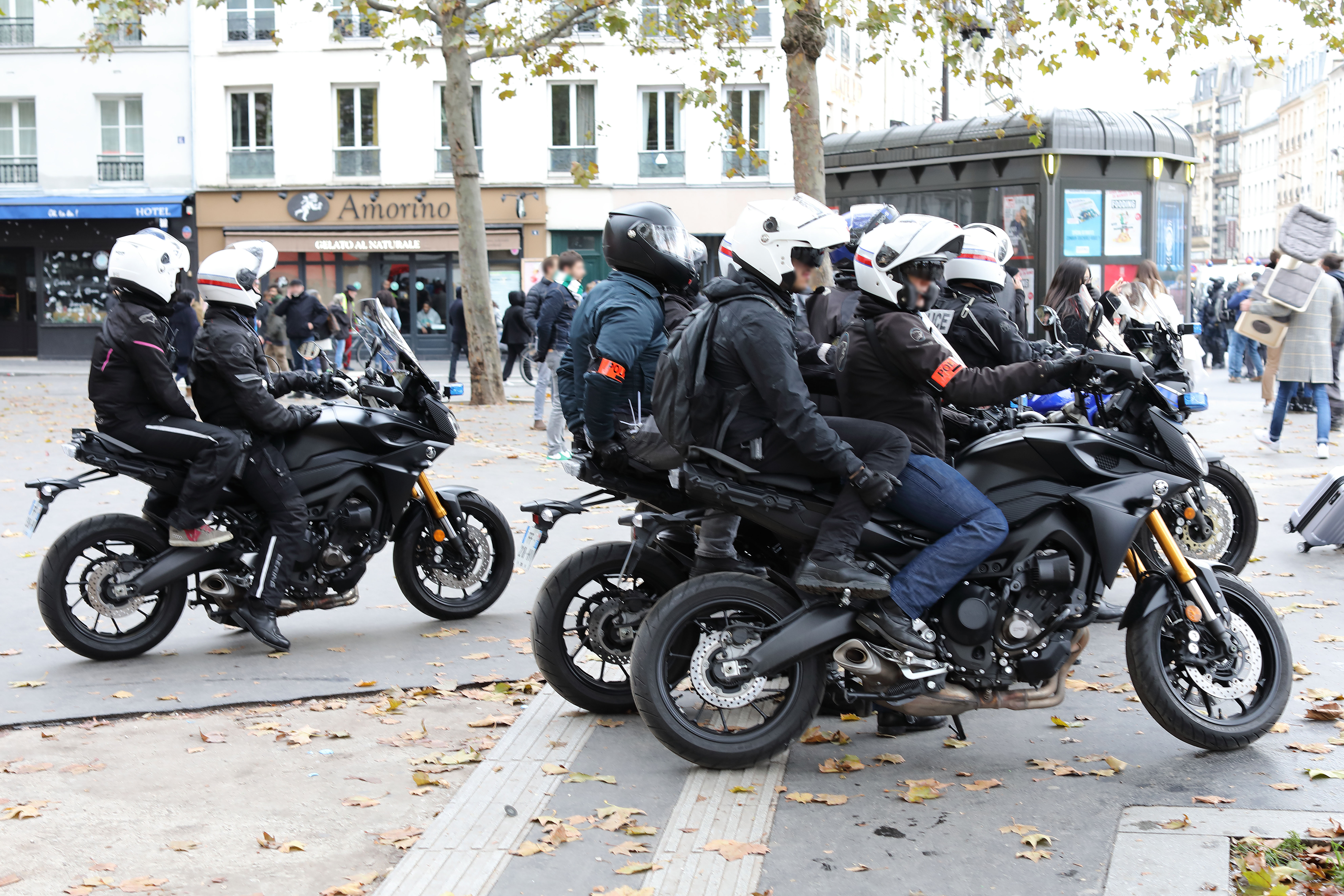 A BRAV team is a highly mobile team created by associating a motorcyclist and a police officer or a gendarme so they can intervene quickly during violent demonstrations